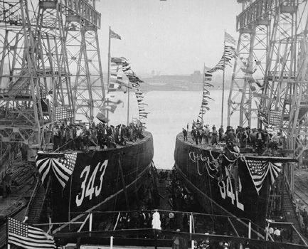 Launch of the U.S. Navy destroyers USS Hulbert (DD-342) and USS Noa (DD-343) at the Norfolk Naval Shipyard, Virginia (USA), on 28 June 1919.